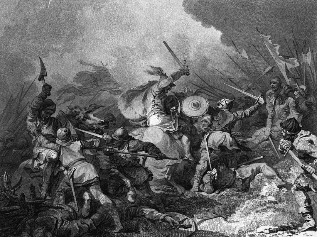 Battle of Hastings, as portrayed by Philip James de Loutherbourg: this work of art has been engraved by W. Bromley and published in Bowyer's edition of Hume's History of England (1804).[1]